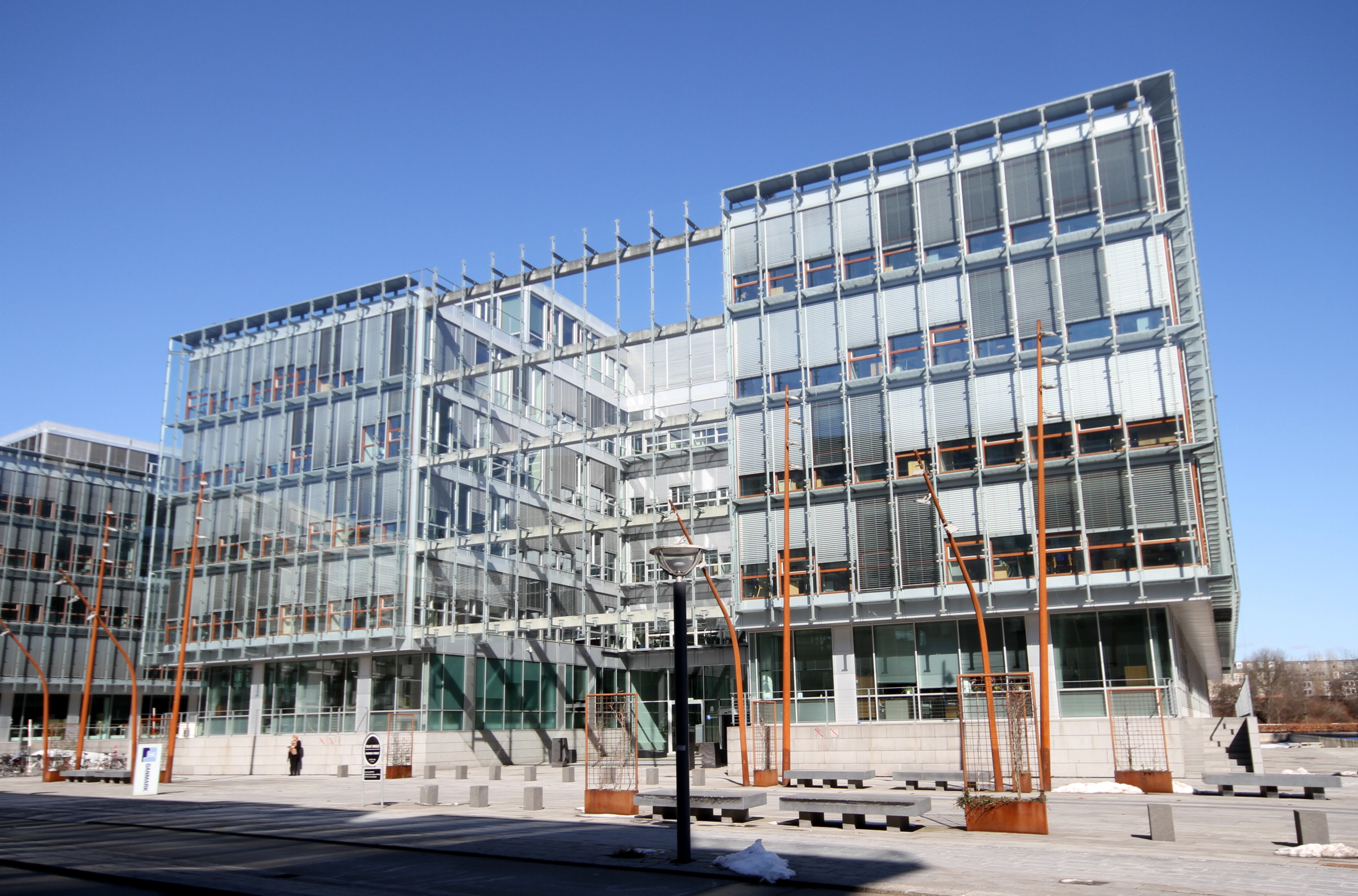 Building at Ny Tøjhusgrunden in Copenhagen)